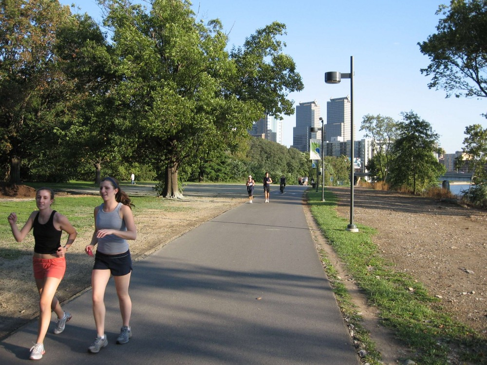 Schuykill River Trail in Philadelphia, PA